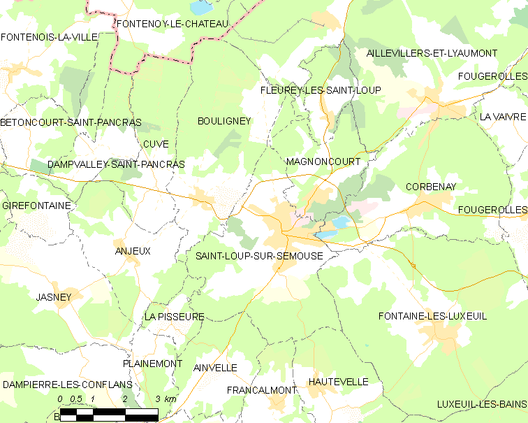 Map of French municipality